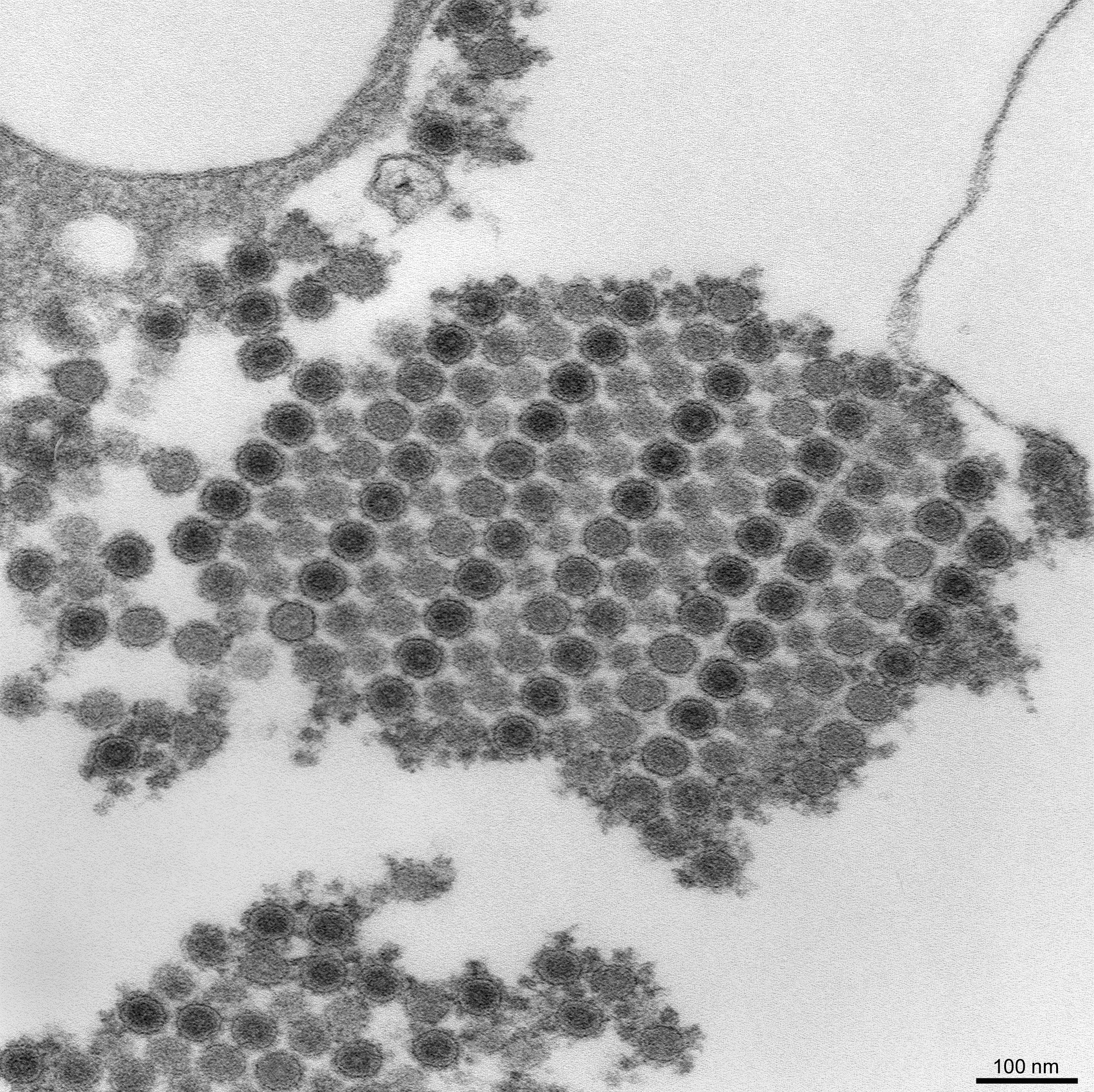 Transmission electron micrograph (TEM) depicting numerous Chikungunya virus particles, which are composed of a central dense core that is surrounded by a viral envelope. Each virion is approximately 50nm in diameter.